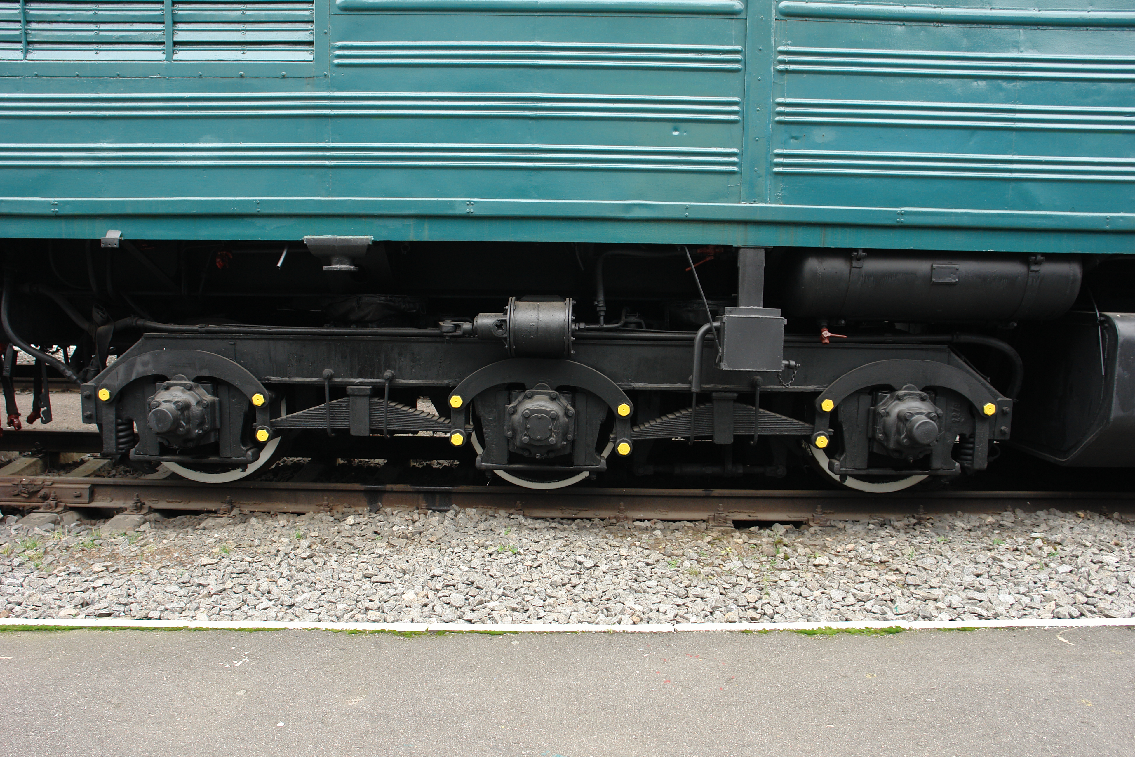 Freight diesel locomotive ТЕЗ-1001 Weight in working order252 t Design speed100 kph Engine power2 x 2000 hp Transmissionelectric Built by the Kolomna Works named after V.V. Kuibyshev in 1956. Worked on the North Caucasus Railway. Received by the museum from Krasnodar depot (North Caucasus Railway) in 1996.